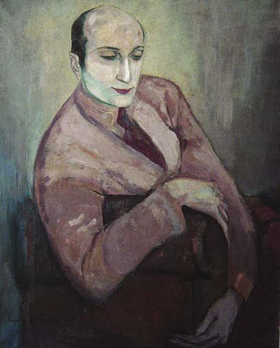 Lepold Gottlieb: Portrait Andre Salmon 1920